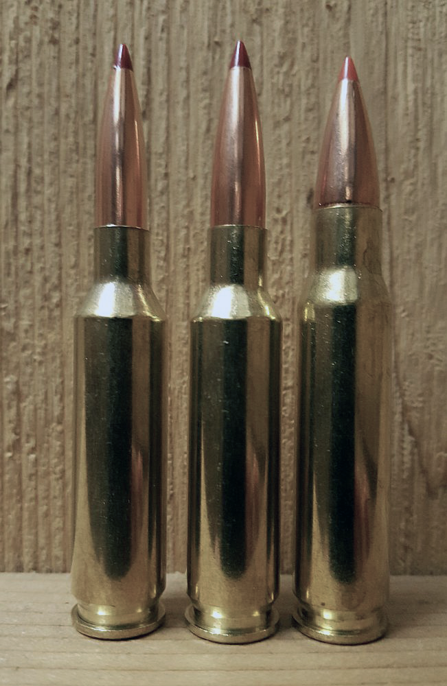 Color corrected